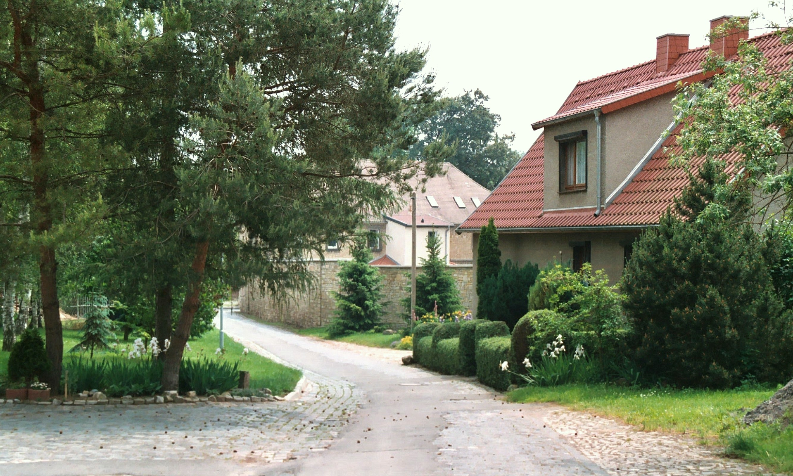 Dederstedt (Seegebiet Mansfelder Land), the Birkenweg